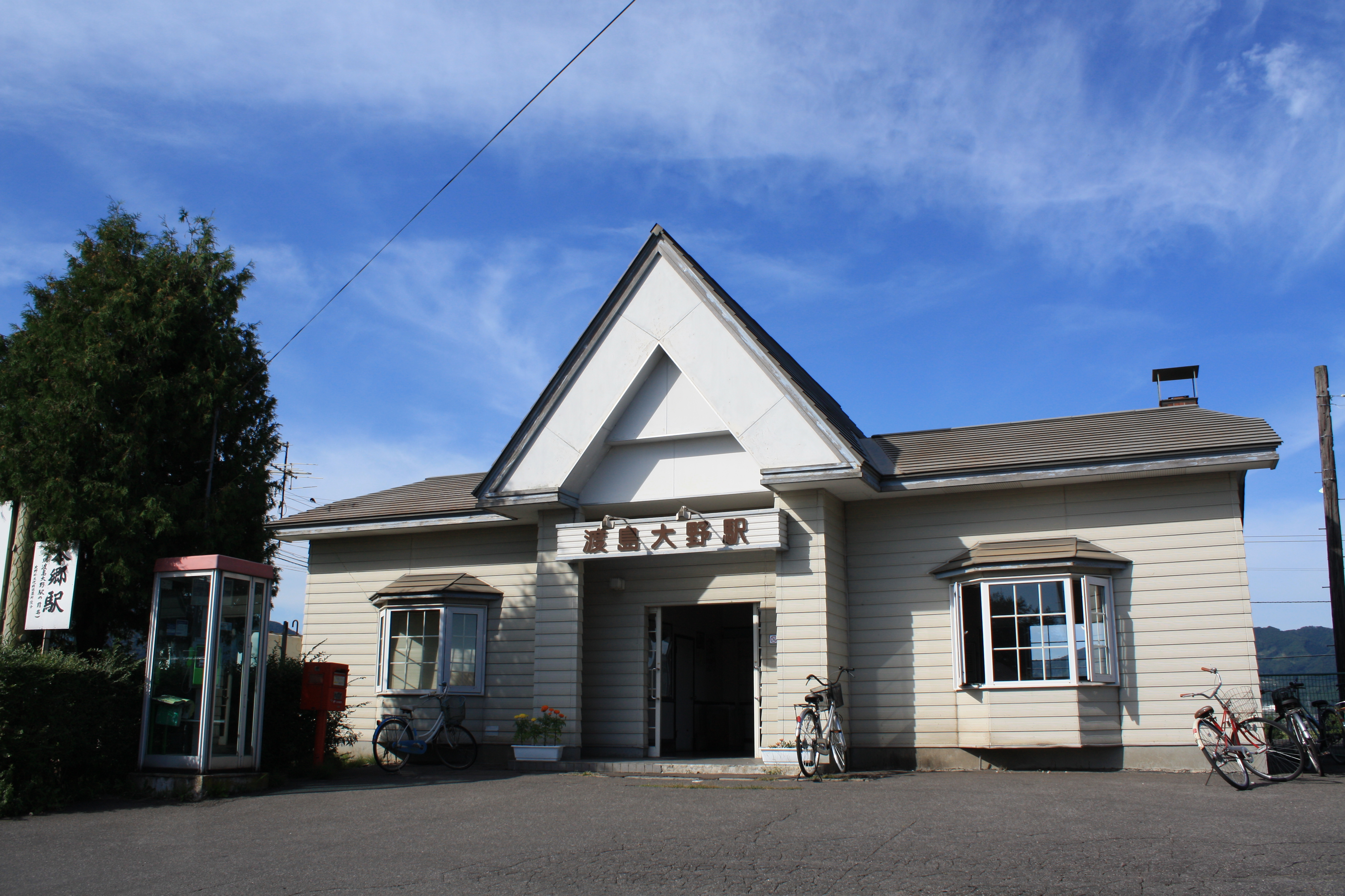 Oshima-Ōno Station in Hokuto, Hokkaido, Japan. It is the station on the Hakodate Main Line operated by JR Hokkaidō.